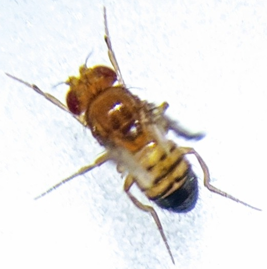 Male fruit fly (Drosophila melanogaster) exhibiting the black body mutation, as well as being vestigial winged and brown eyed.